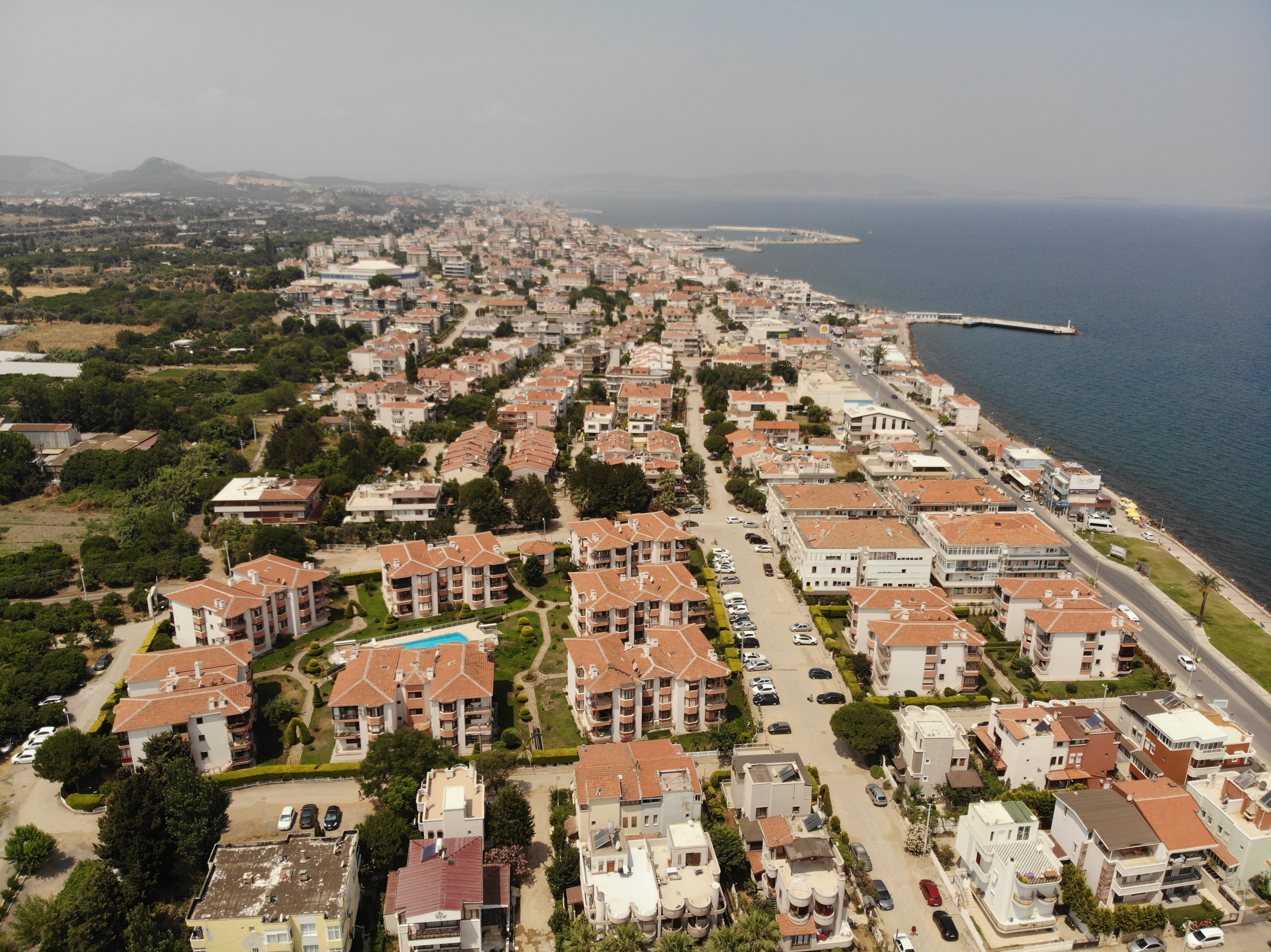 Aerial view of Yalı neighbourhood of Güzelbahçe in İzmir, Turkey.